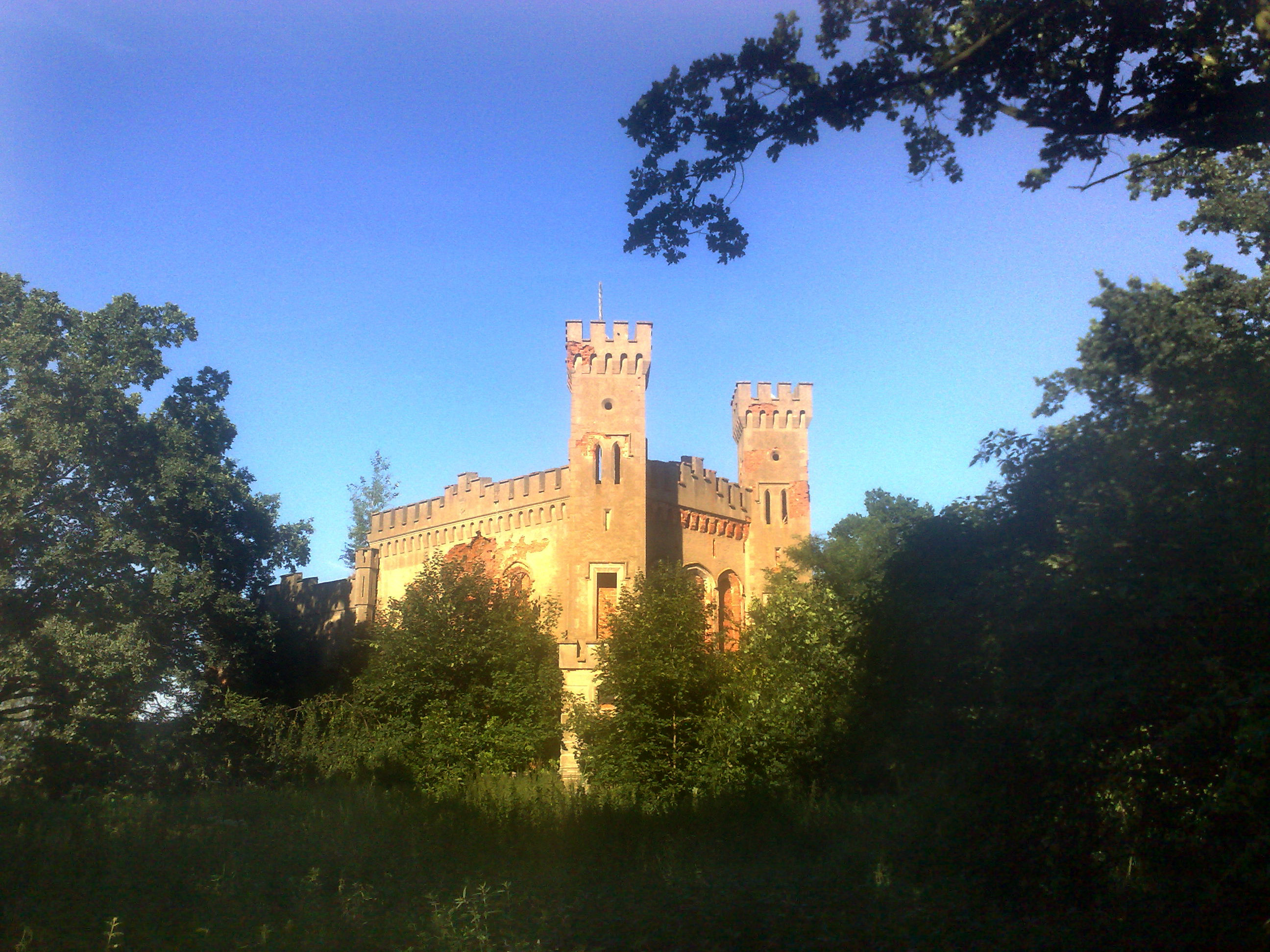 Palace in Boguszyce